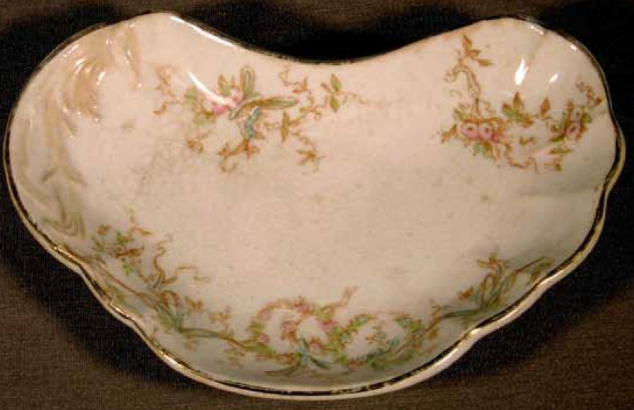 Bone dish to collect fish bones during eating. It was placed next to the dinner plate with the concave side facing toward the outer rim of the dinner plate. It was used to place the bones that were picked out of the fish during the eating process. The idea being to not have the fish bones mix back into the food still on the dinner plate. It was a "Victorian thing" - being high class and showing your refinement.